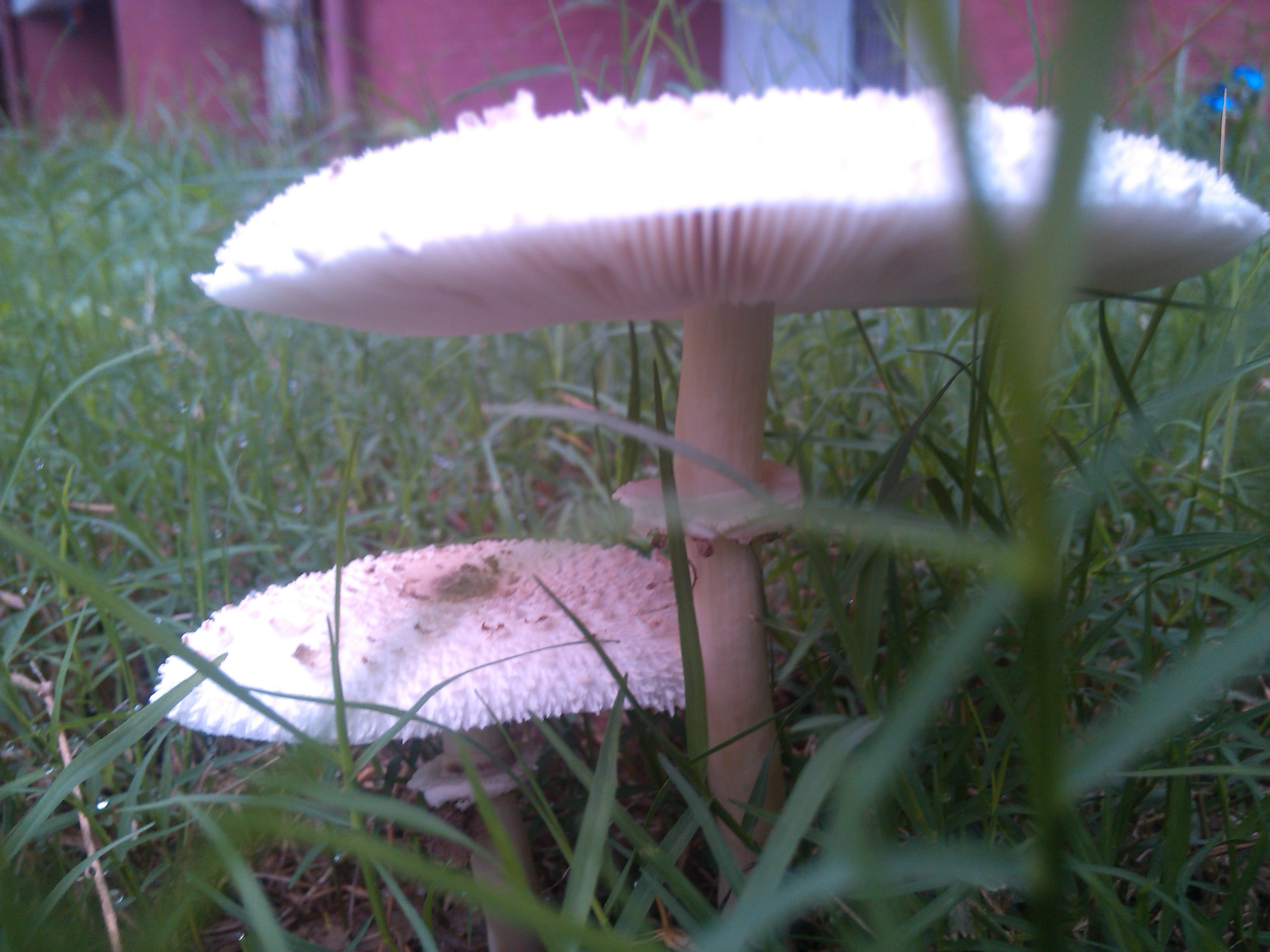 This image of mushroom is captured at Panjab University Chandigarh, India.